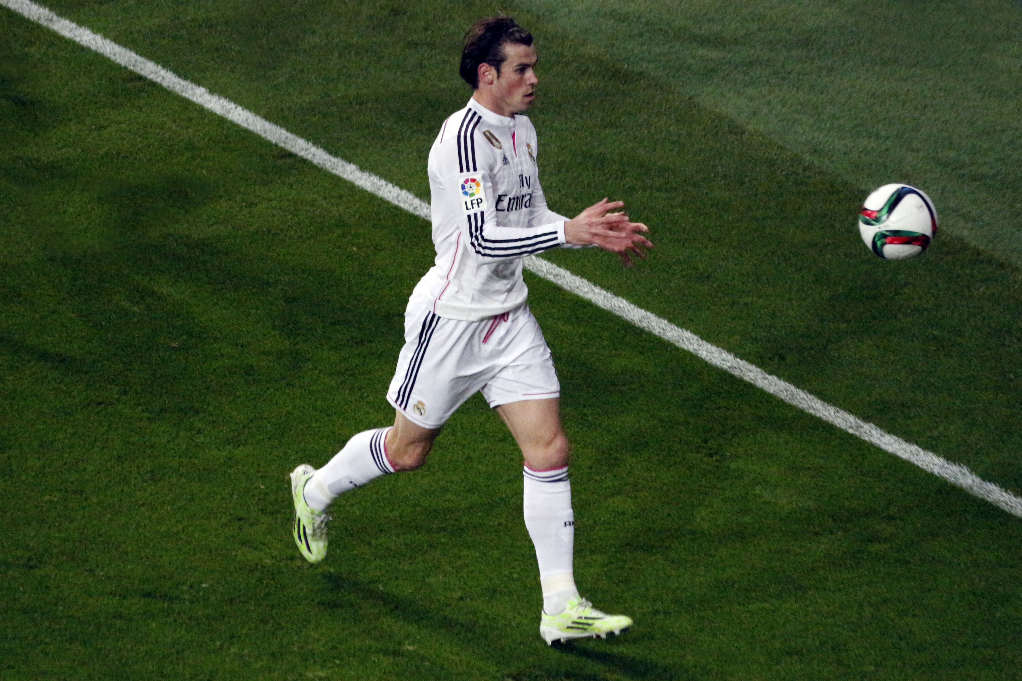 Gareth Bale playing for Real Madrid